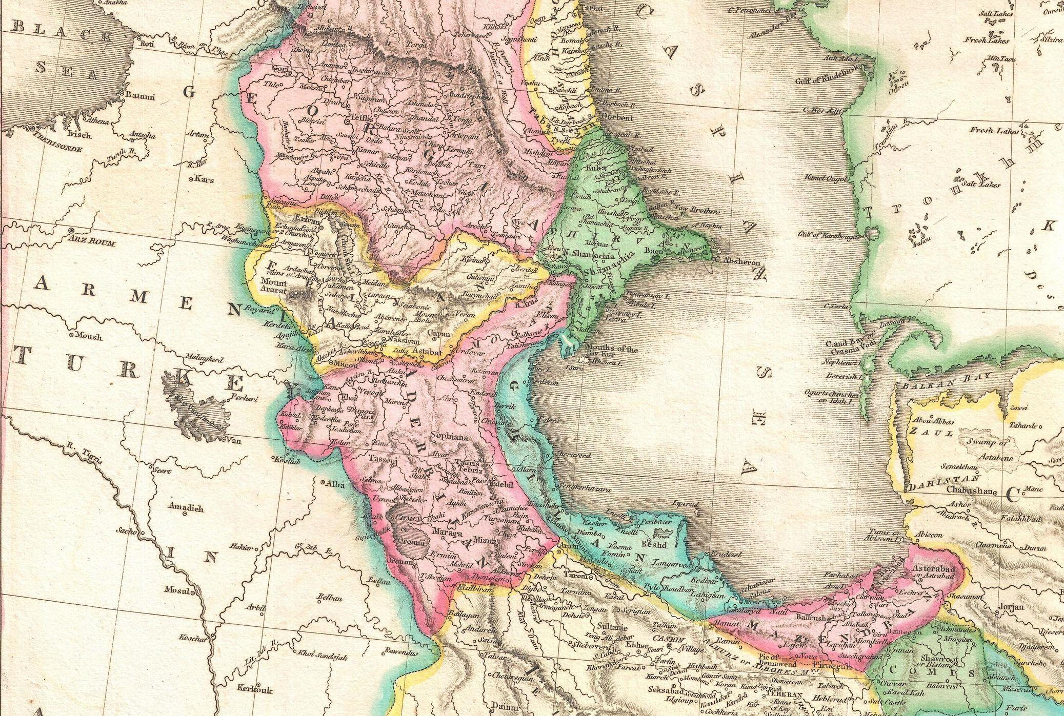 A rare and important 1818 map of Persia by John Pinkerton. Depicts from the Black Sea eastward as far as the Indus Valley, extends north to the Aral Sea and South to the Persian Gulf and the Arabian Sea. Includes the modern day countries of Iran and Afghanistan, as well as parts of adjacent Pakistan, Kuwait, Iraq, Turkey and Arabia. Notes both political and physical geographic elements, including rivers, mountains, under sea dangers, various tribal regions, cities, ruins, and canals. In particular, notes the ruins of both Babylon and Persepolis. Drawn by L. Herbert and engraved by Samuel Neele under the direction of John Pinkerton. The map comes from the scarce American edition of Pinkerton’s Modern Atlas, published by Thomas Dobson & Co. of Philadelphia in 1818.